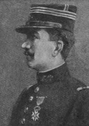 Jean Auguste Marie Tilho